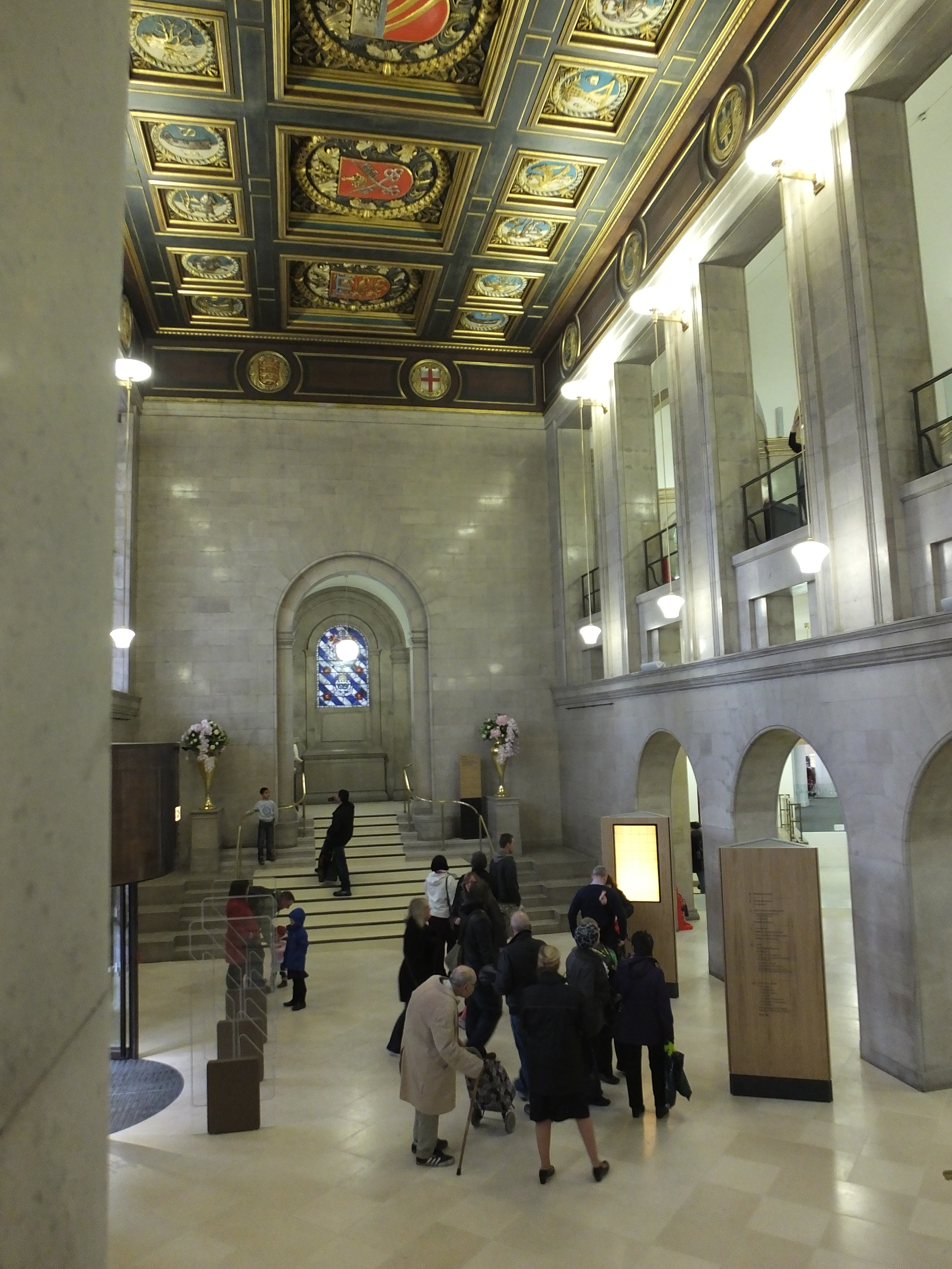 Manchester Central Library re-opened after refurbishment 22 March 2014. Entrance from St Peter's Square.